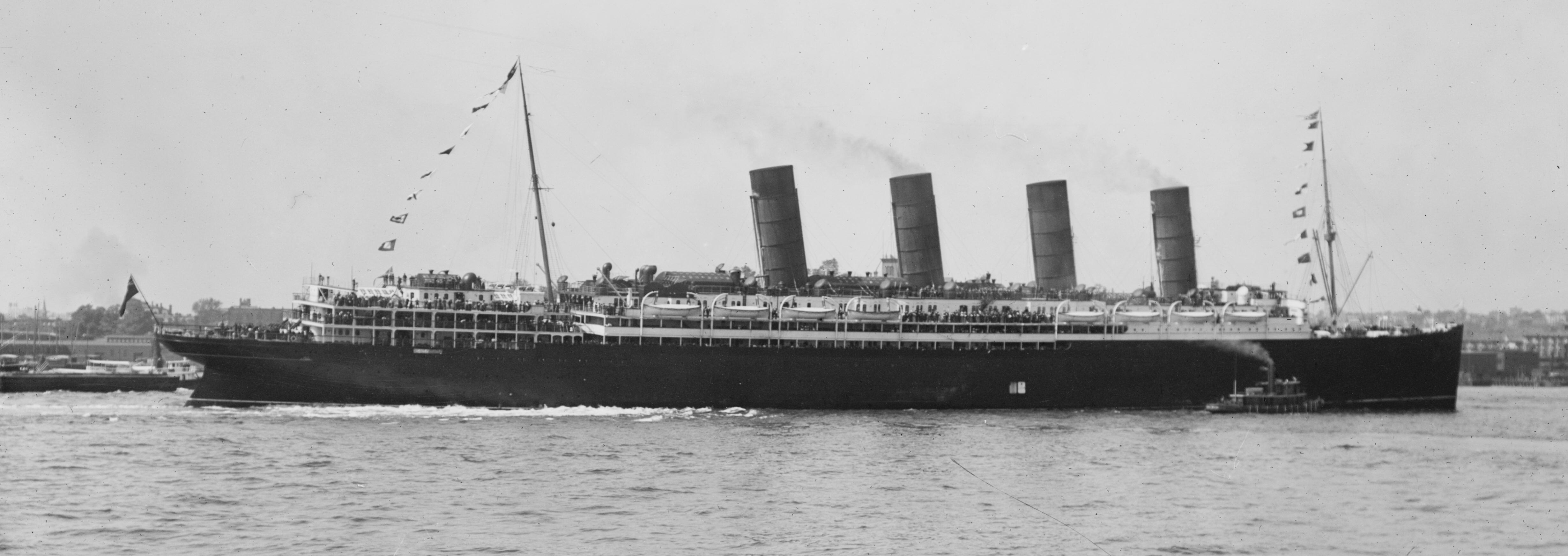 RMS Lusitania arriving in New York on her maiden voyage. LOC has no dating information, Maritimequest state 13 september 1907